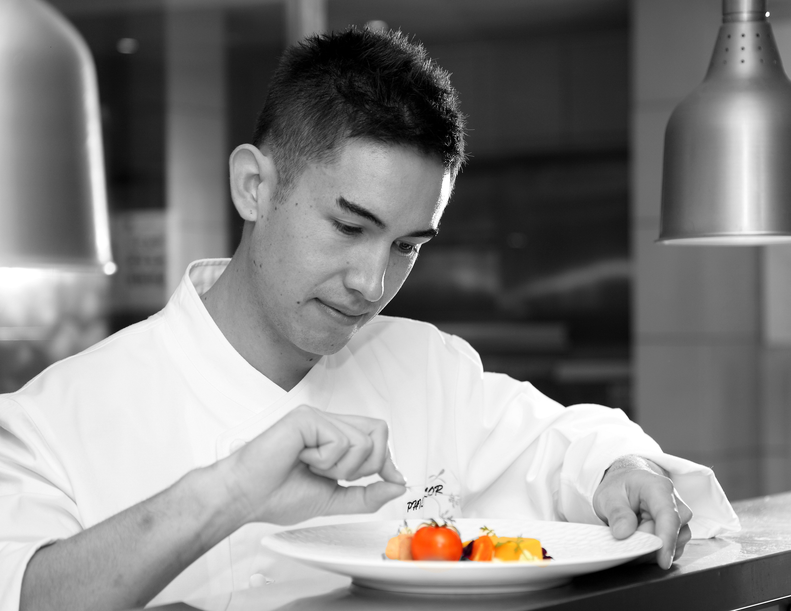 Phillip Taylor as Chef de Cuisine at Aria Restaurant at China New World Hotel, Beijing